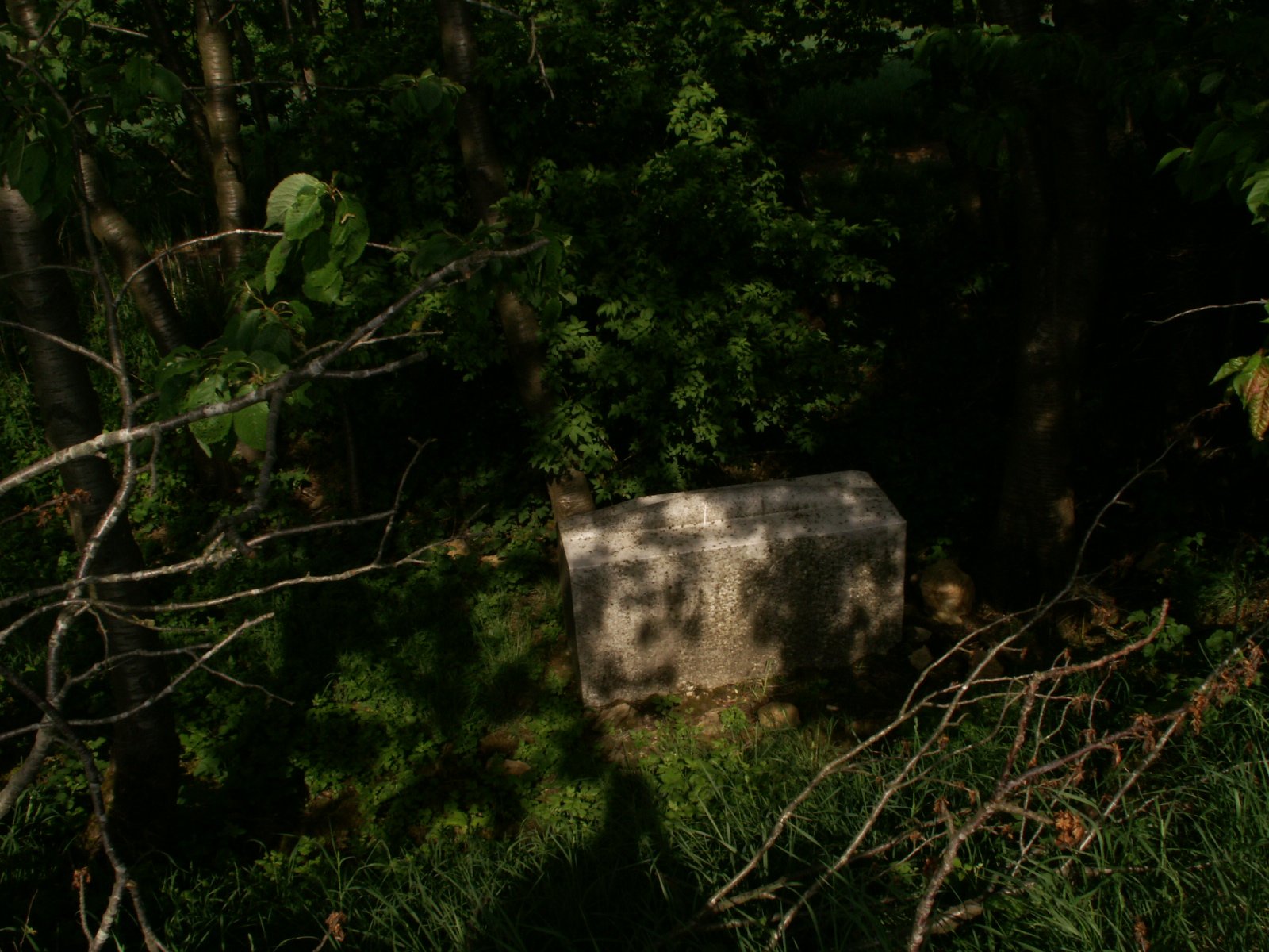 Steine an der Grenze - Peter Paszkiewicz, 1990